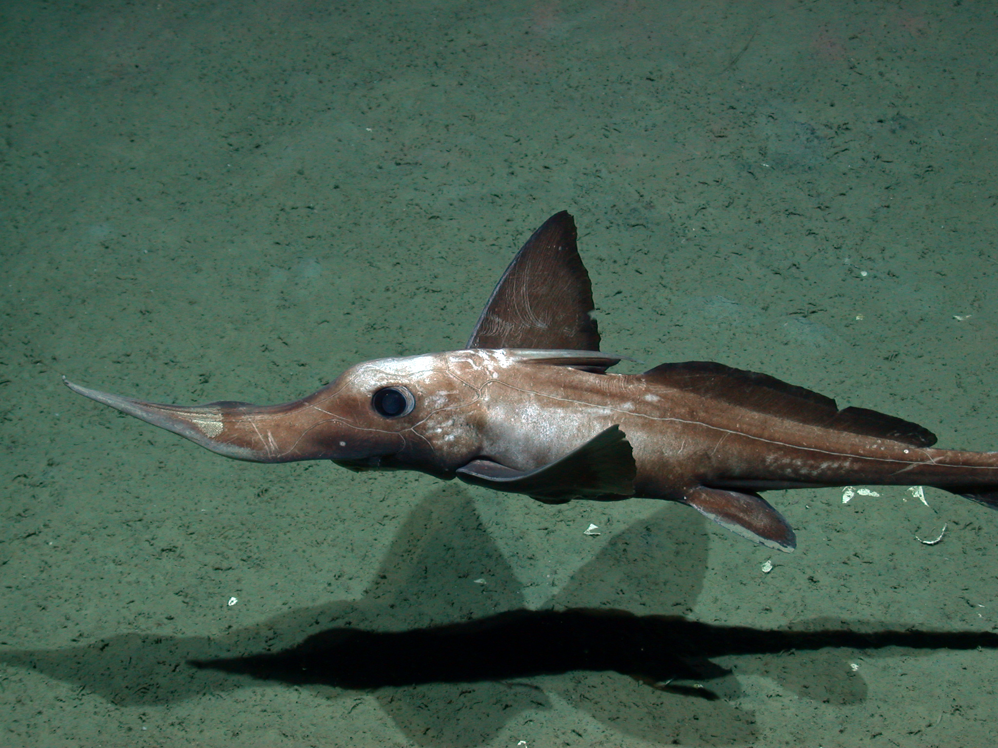 Long-nosed chi­maera in the Ar­a­bian Sea at a depth of 1,975 meters